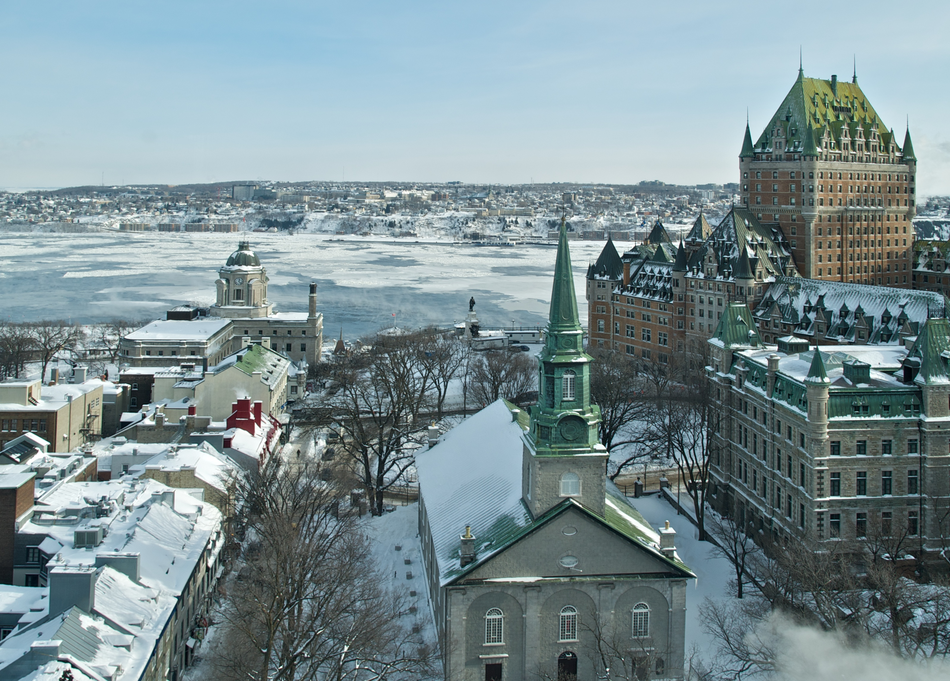 The Saint Lawrence River and the Chateau Frontenac in Quebec City viewed from the 13th floor of the Price Building at -25C temperatures.The title of the photograph at the source is:Minus 25 deg C, Ville de Québec